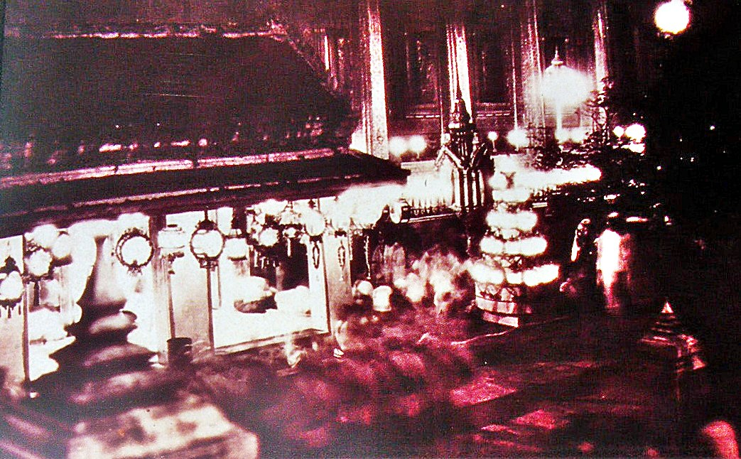 Vesak Day in Wat Phra Kaew Thailand 1927.